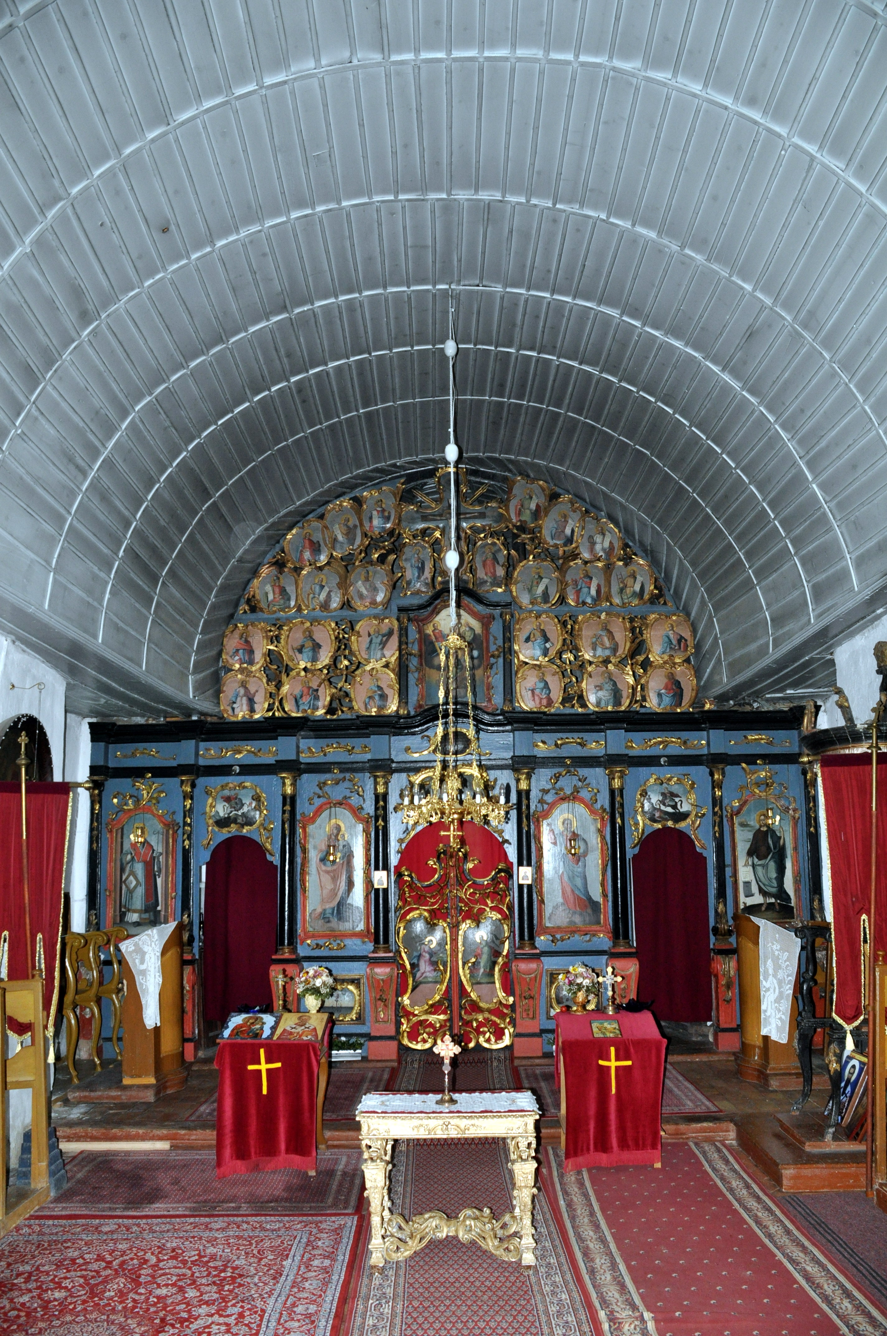 Serbian Orthodox church of Saint Nicholas in Ečka - nave to the iconostasis